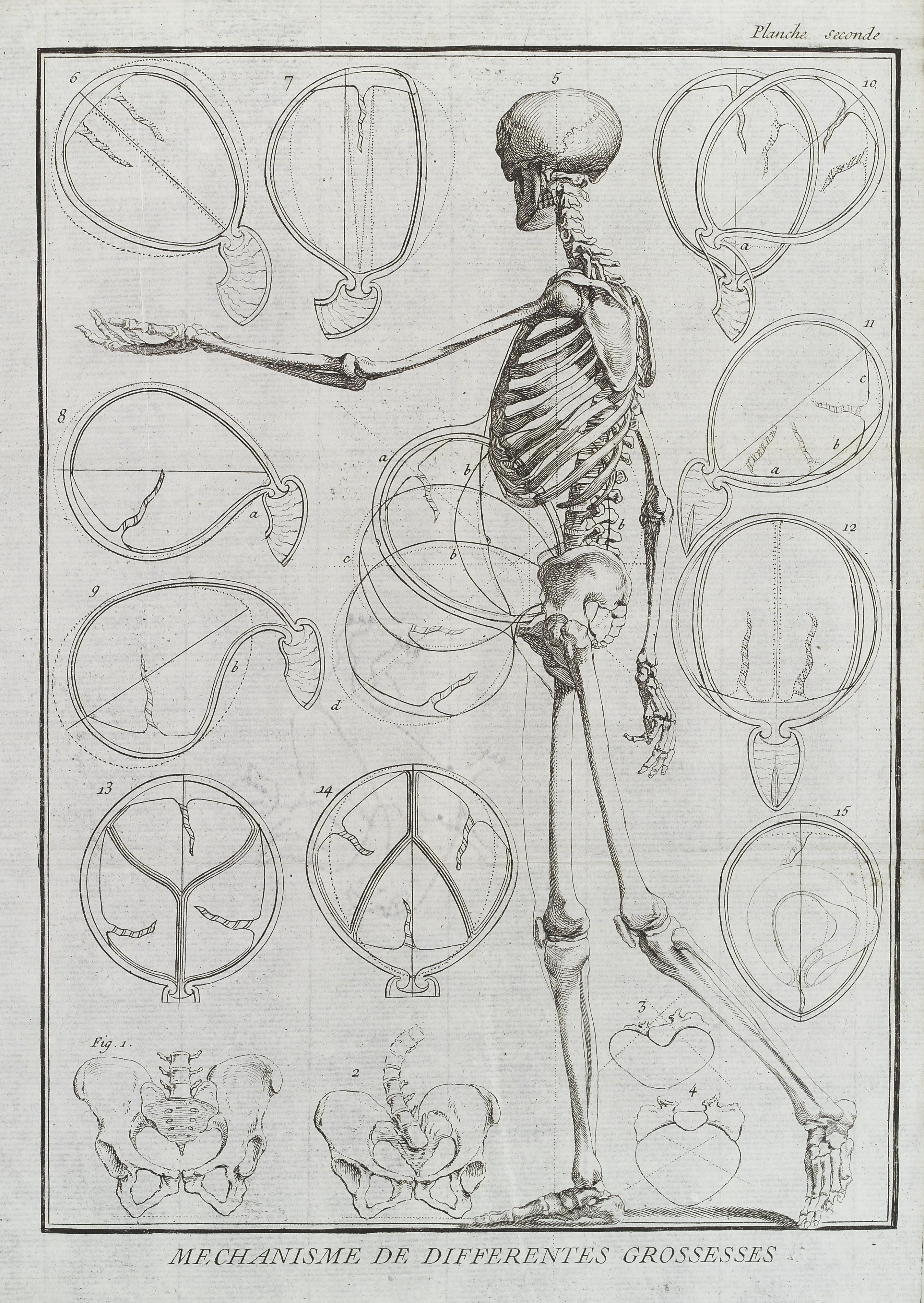 Female skeleton with diagrams of the womb establishing the various positions of the placenta during pregnancy. Rare Books Keywords: Pregnancy; Andre Levret; Skeleton; Pregnant